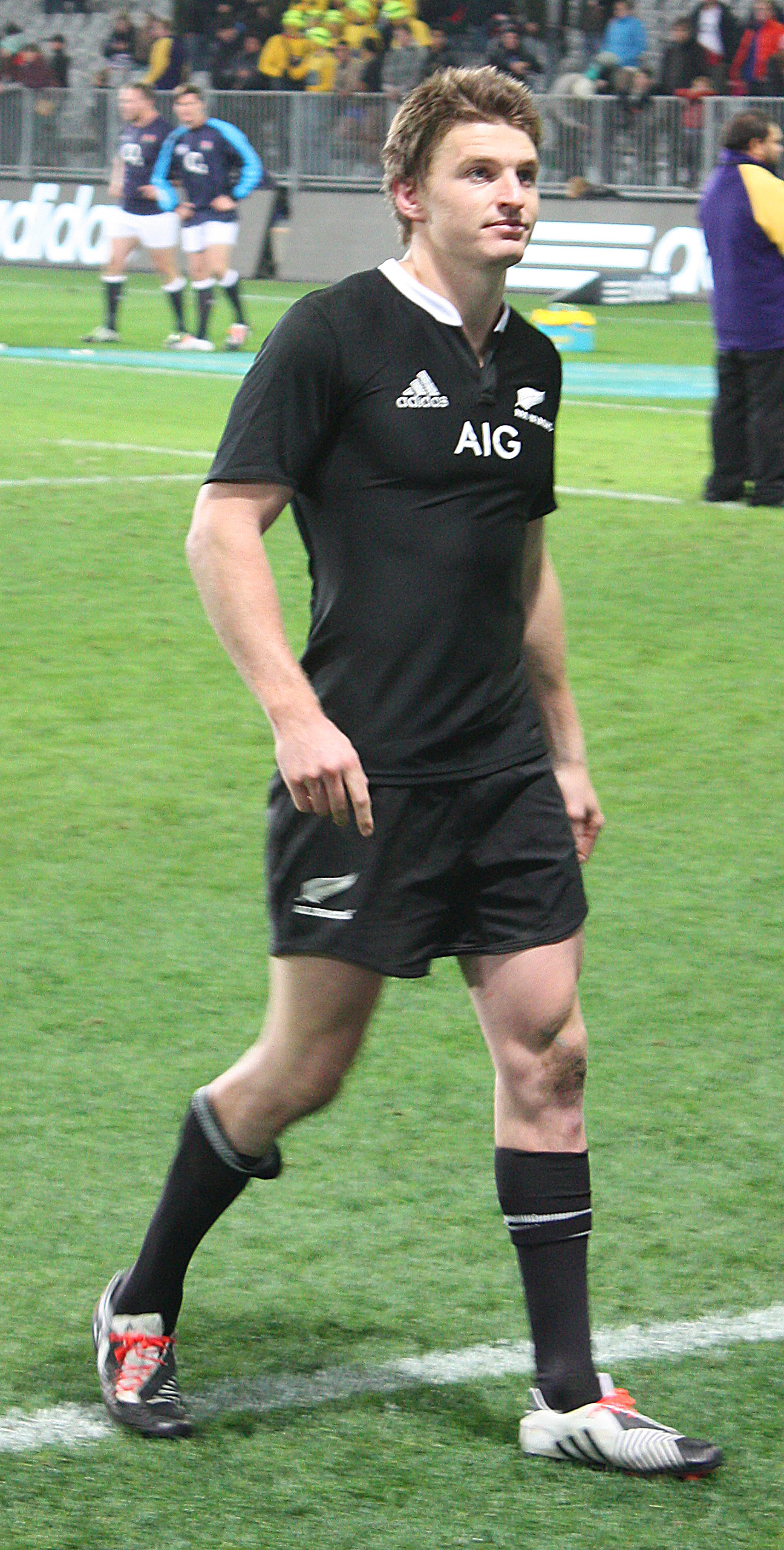 Beauden Barrett (number 22 replacement) in Forsyth Barr Stadium Dunedin for the England Test 14 June 2014